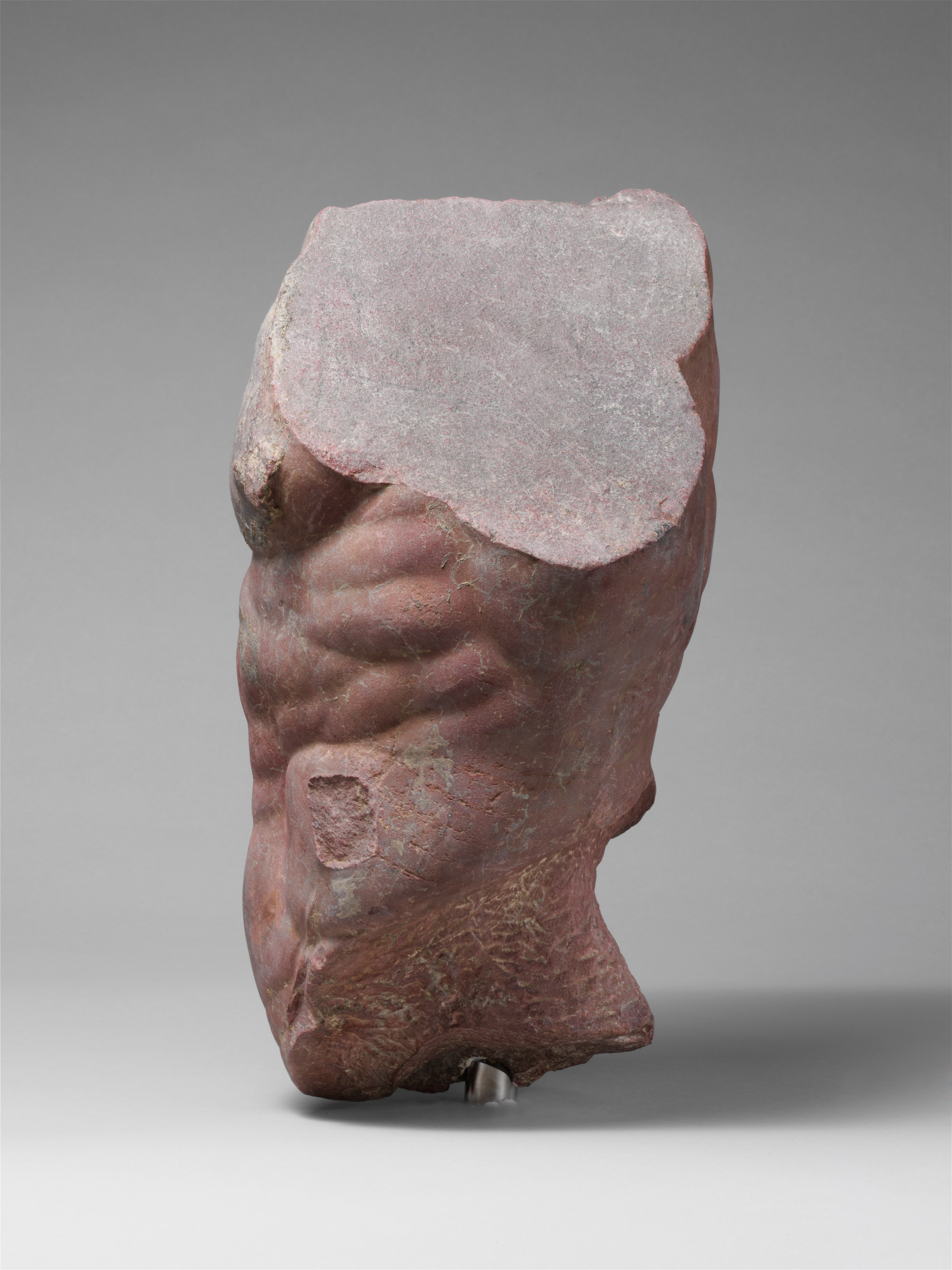 Roman; Statue of a centaur, fragment; Stone Sculpture